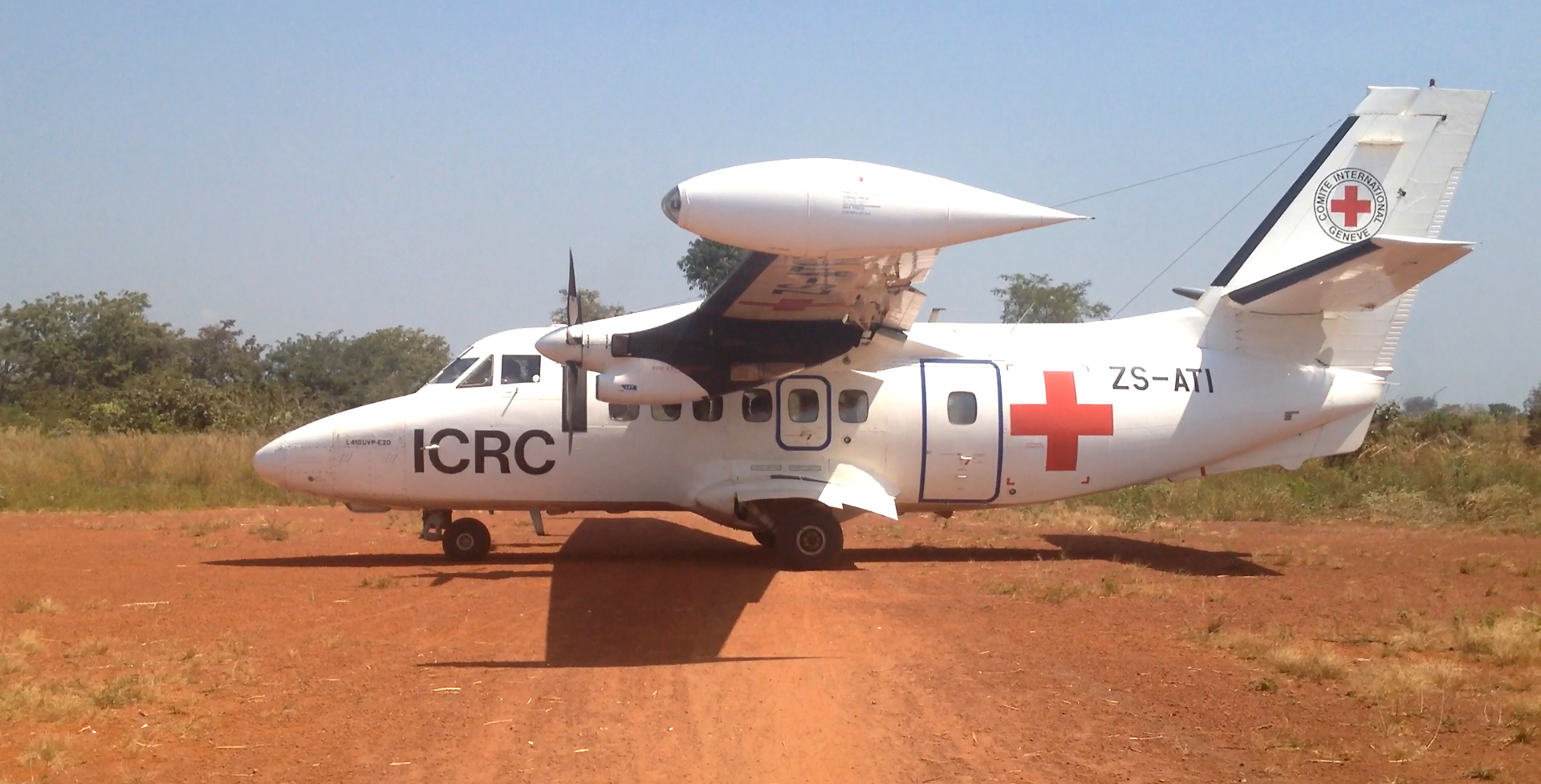 The escalating violence in Central African Republic has made access extremely dangerous. Aid workers cannot easily travel along major roadways for fear of attack. Britain is supporting the Red Cross to help get medical help to those who need it most - including flying out critically-injured or sick patients to the capital, Bangui, for treatment. The UK is providing emergency healthcare, clean water, food and logistical support to hundreds of thousands of people across CAR in response to the severe escalation in the humanitarian crisis. For full details of how the UK is helping, please